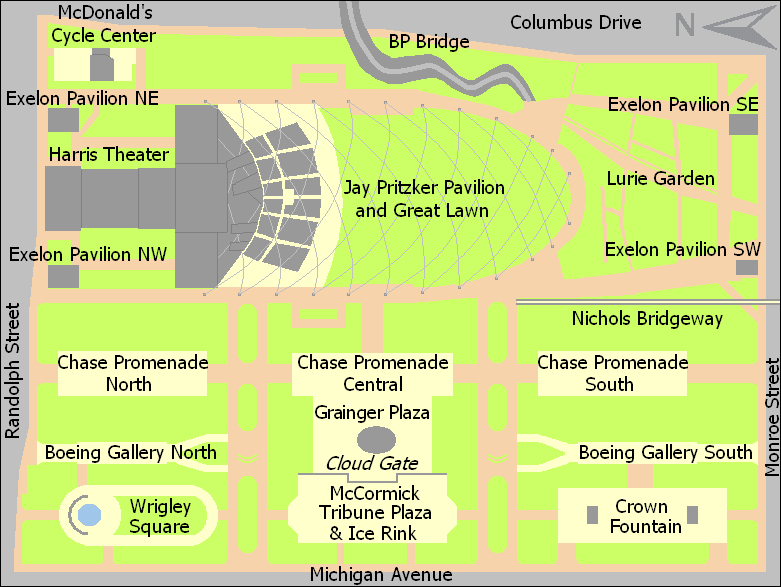 Map of Millennium Park in Chicago, Illinois. With labels added in English.